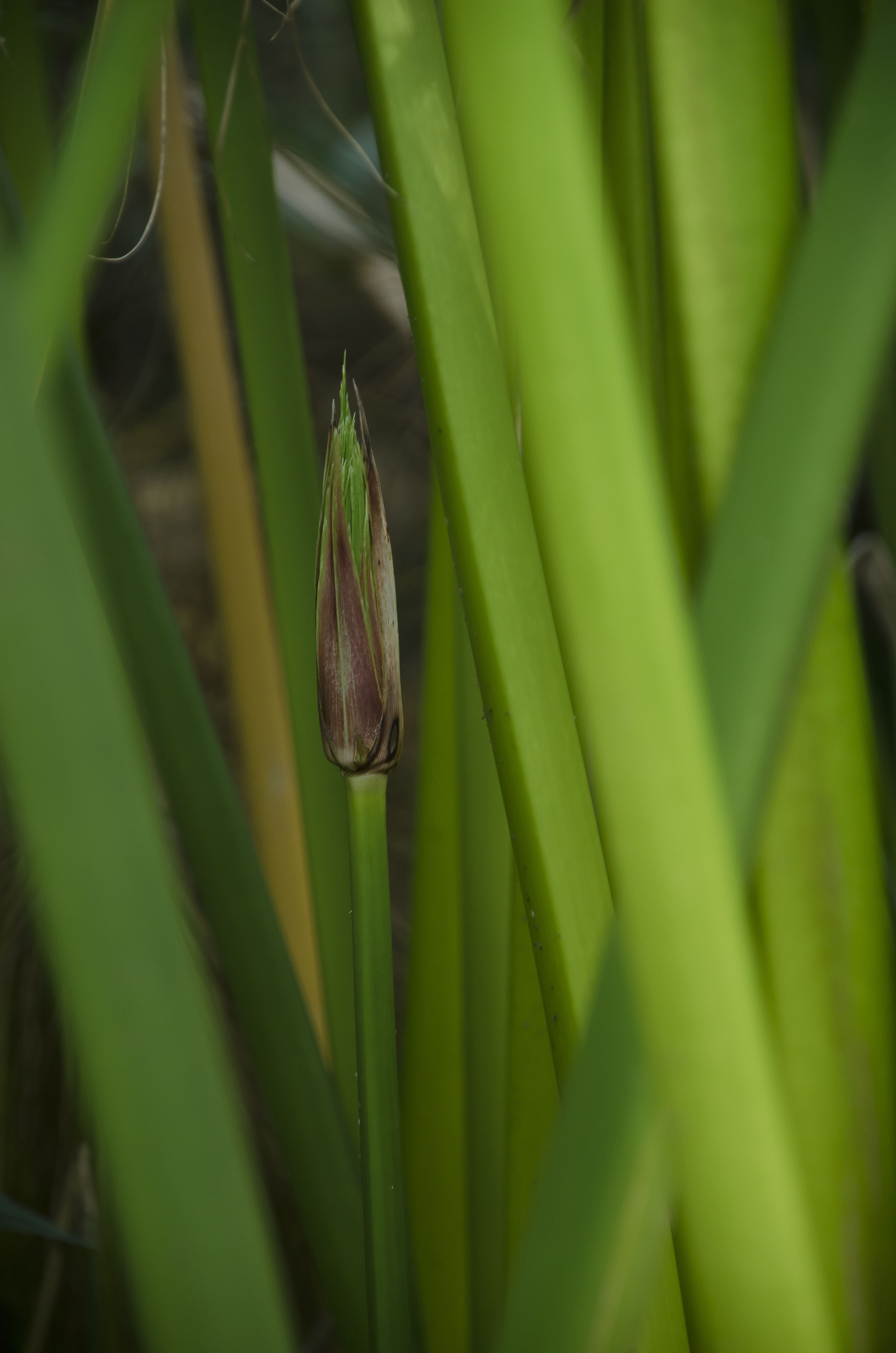 Cyperus papyrus, Fiume Ciane, near Siracusa, Sicily